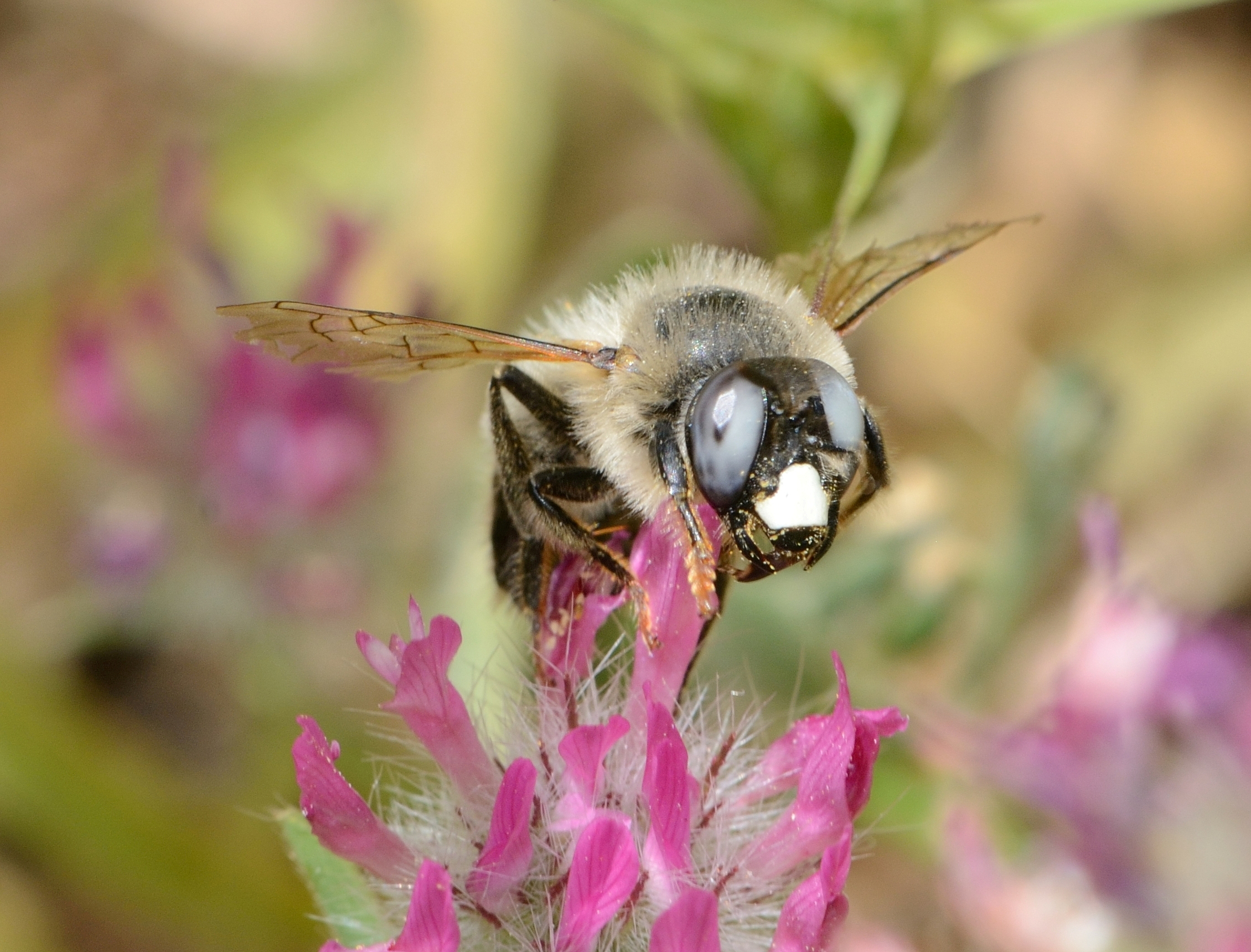 Melitturga pictipes Morawitz, 1892, male standing on Trifolium purpureum, Mount Carmel, Israel, April 19, 2012. Det. Sébastien Patiny 2013.